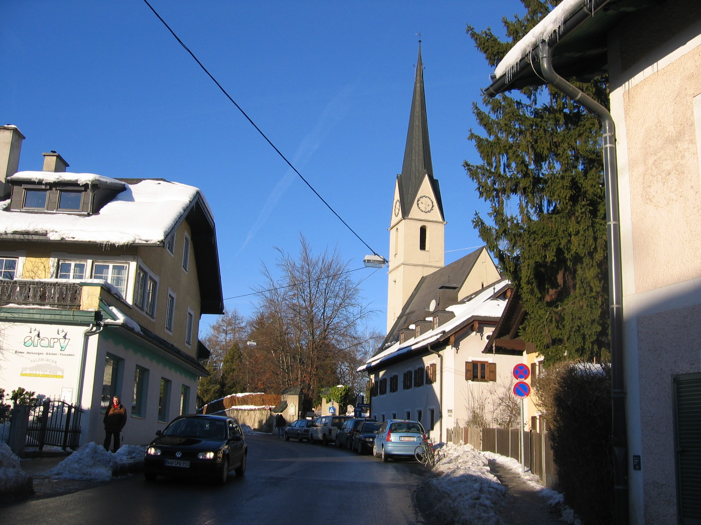 Maxglan, district of Salzburg Photograph by Gakuro 06